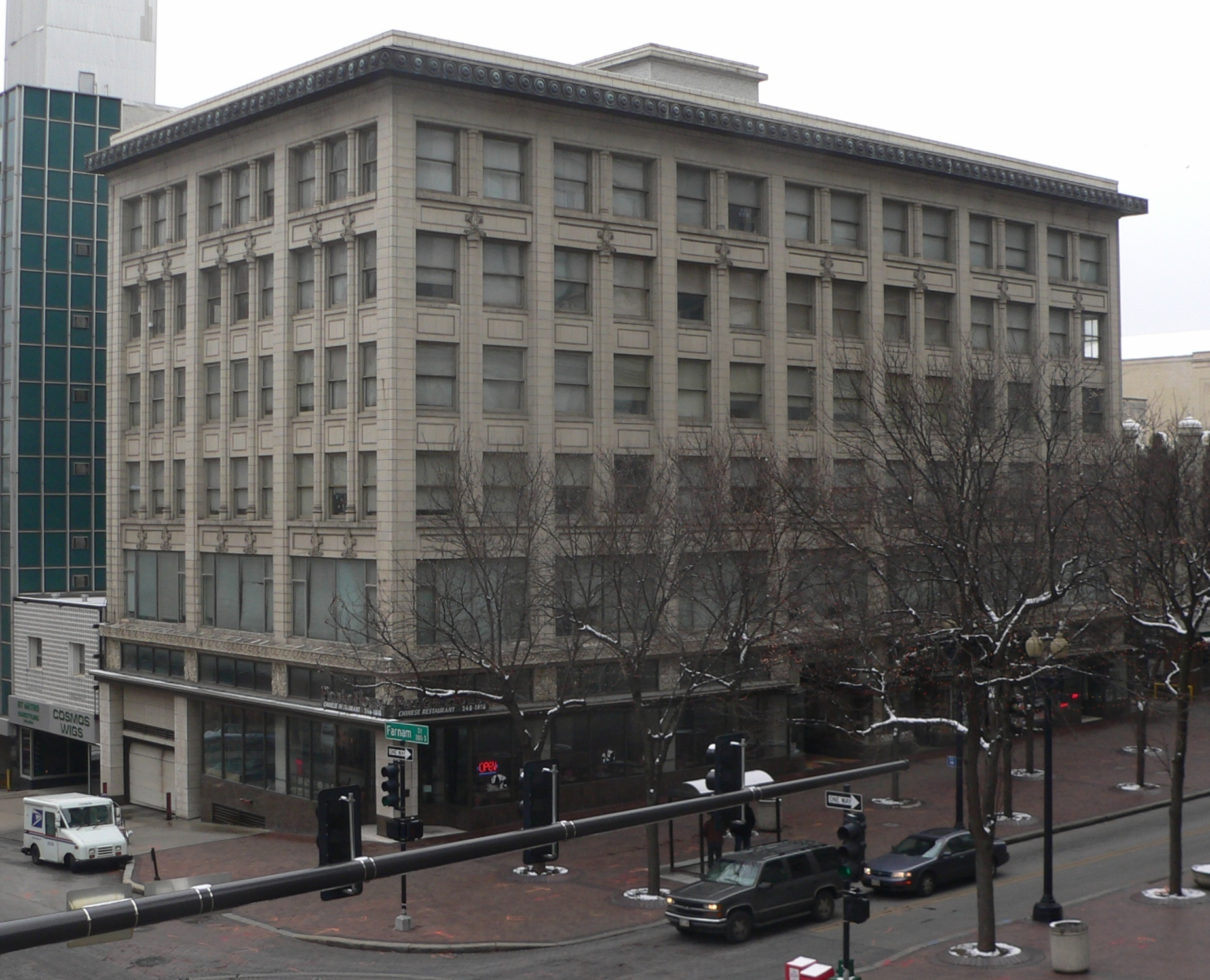 Rose Realty Securities Building, located at southeast corner of 16th and Farnam Streets in Omaha, Nebraska; seen from the northwest.